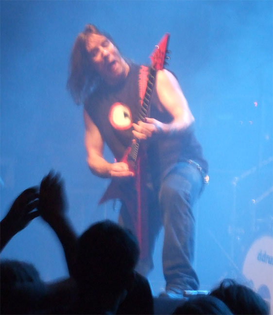 Jeff Waters from Annihilator playing live at Sentrum Scene in Oslo, Norway